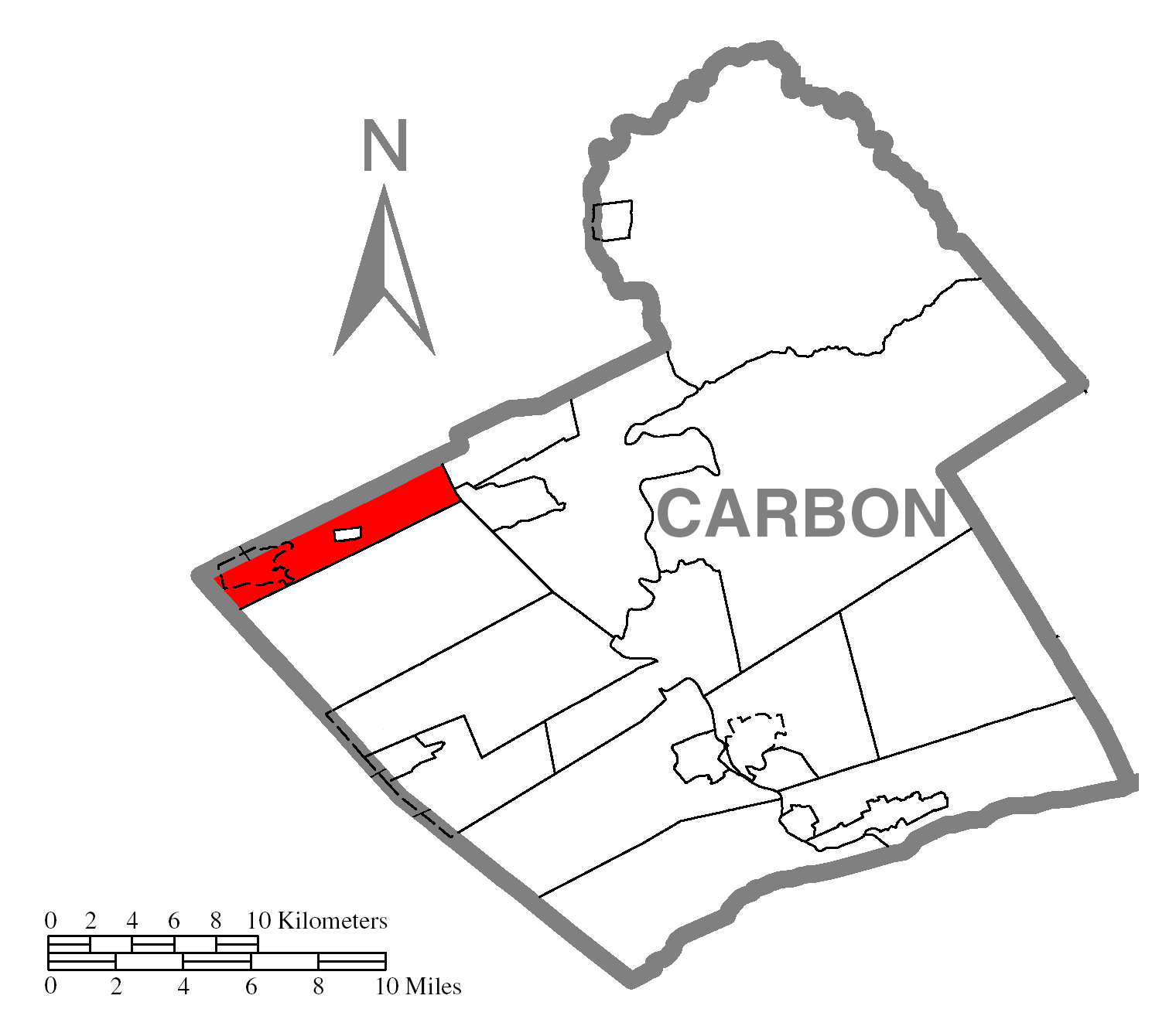 A map of Carbon County showing Banks Township, Pennsylvania (alternate) highlighted on the map.